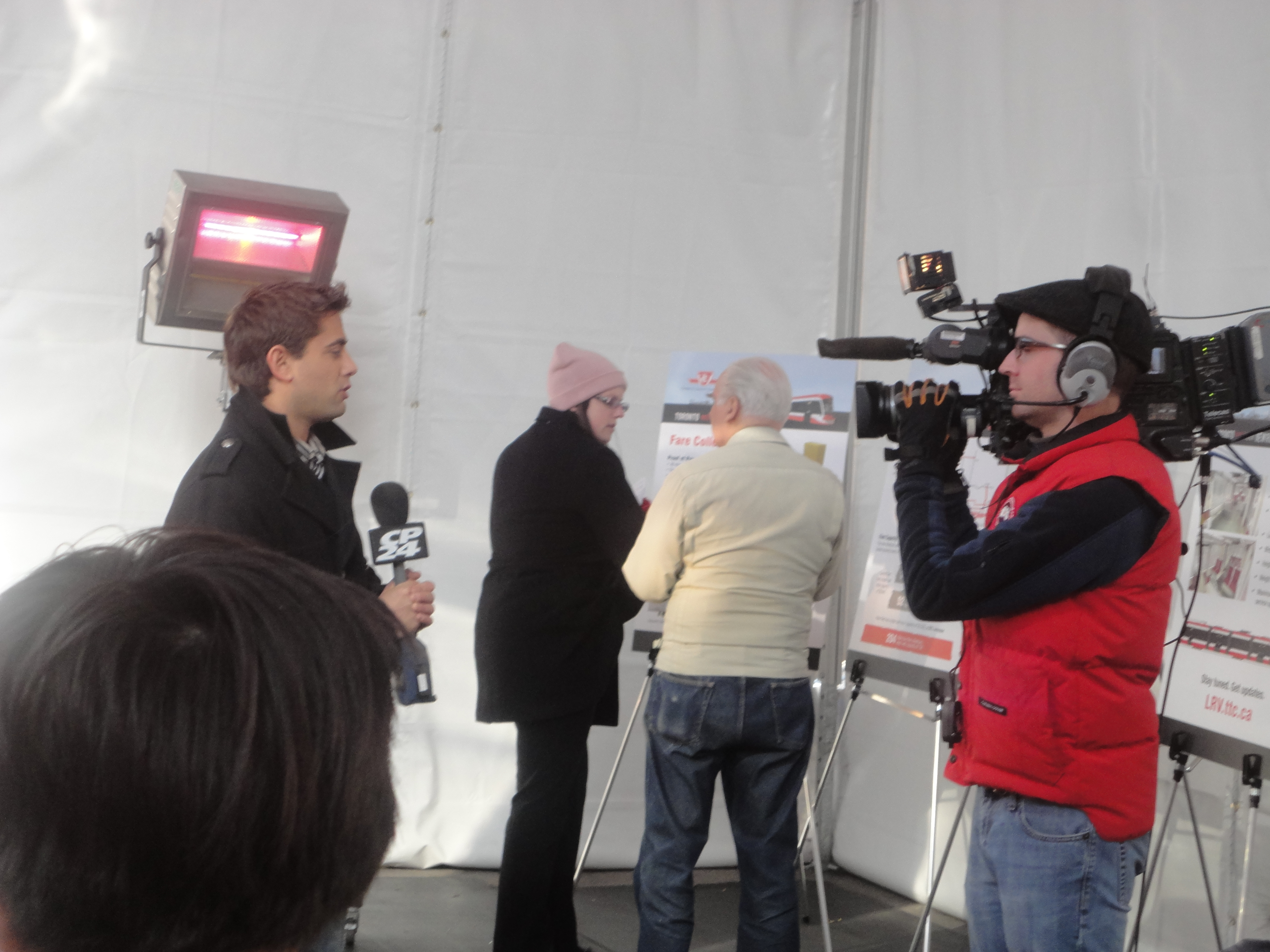 CP24's Jamie Gutfreund reports live at the TTC's future streetcar open house